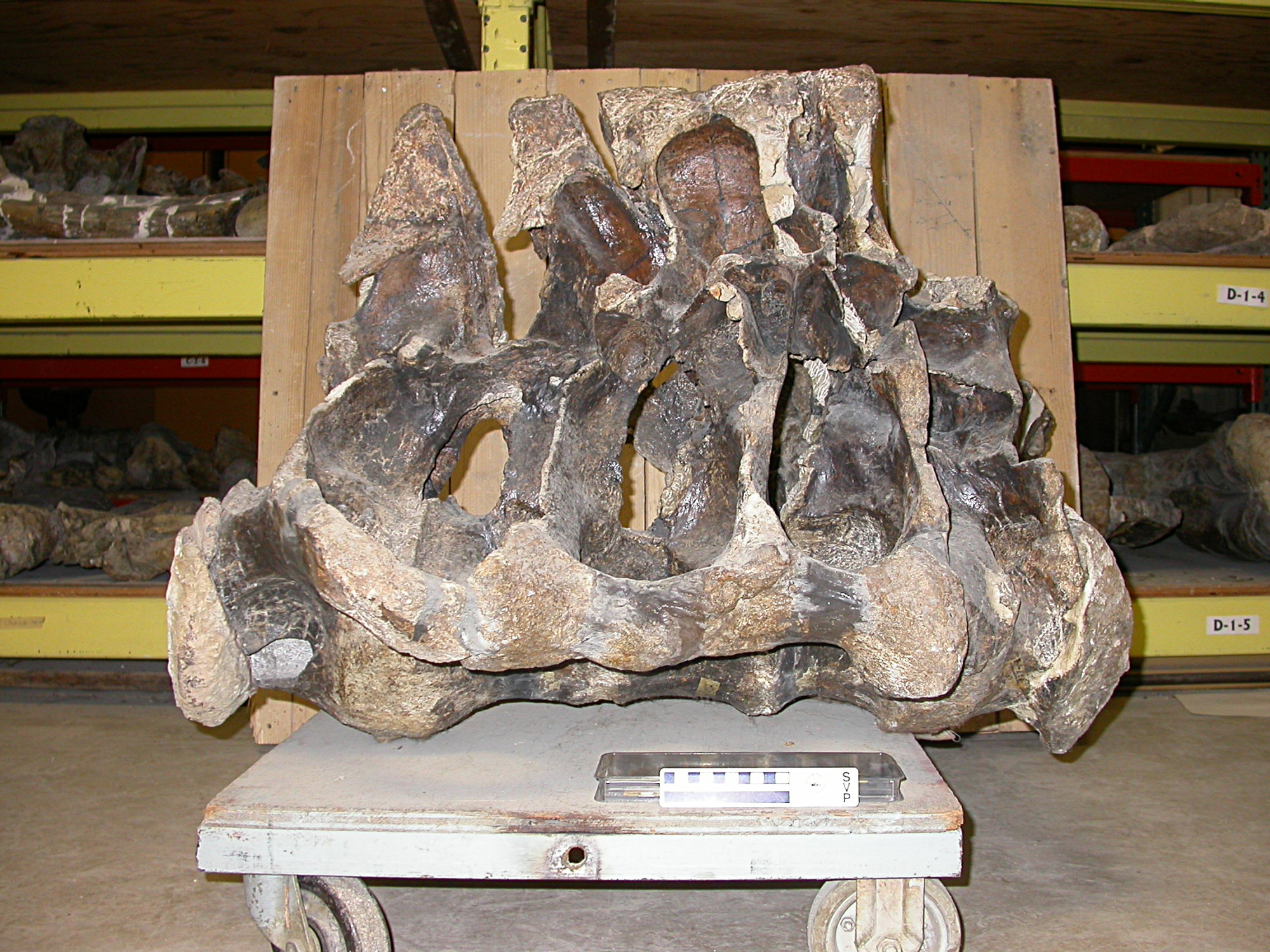 Sacrumof Cathetosaurus lewisi, holotype BYU 9047.